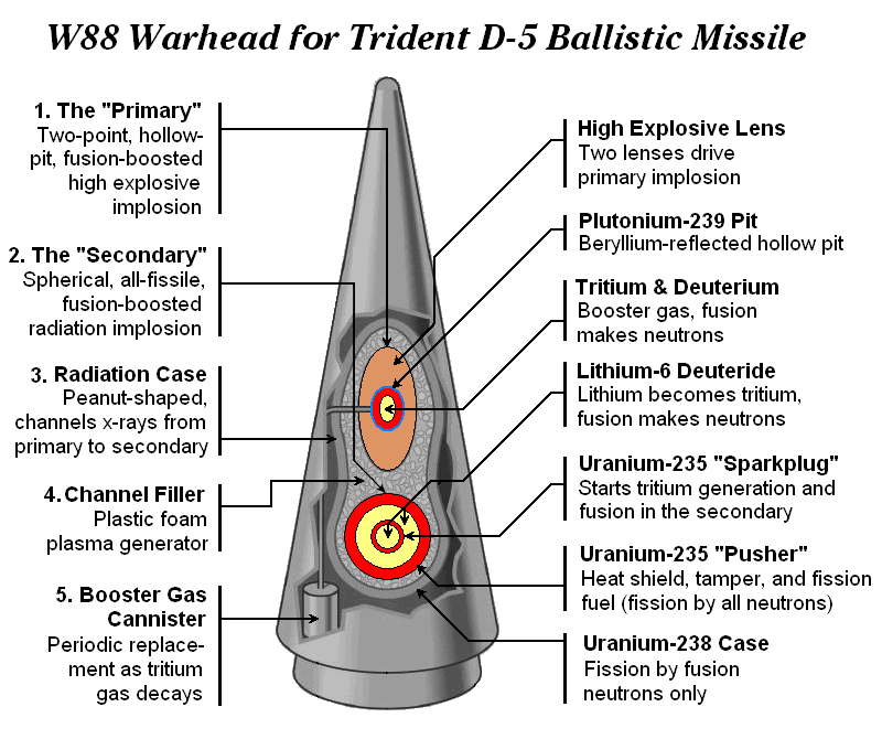 Diagram of a US W88 warhead for a Trident D-5 ballistic missile